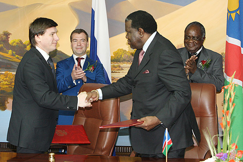 WINDHOEK. Signing of documents for Russian-Namibian cooperation.